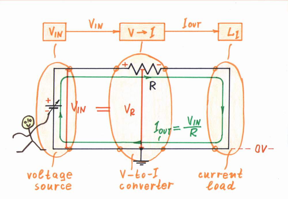 Resistor acting as a voltage-to-current converter